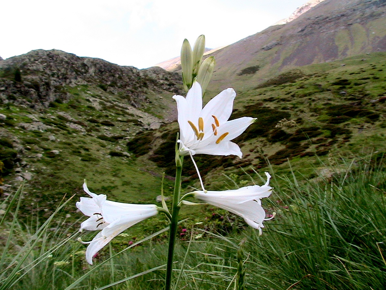 Paradisea liliastrum. In Cabdella (Pallars Jussà - Catalunya. To 1.980 m altitude